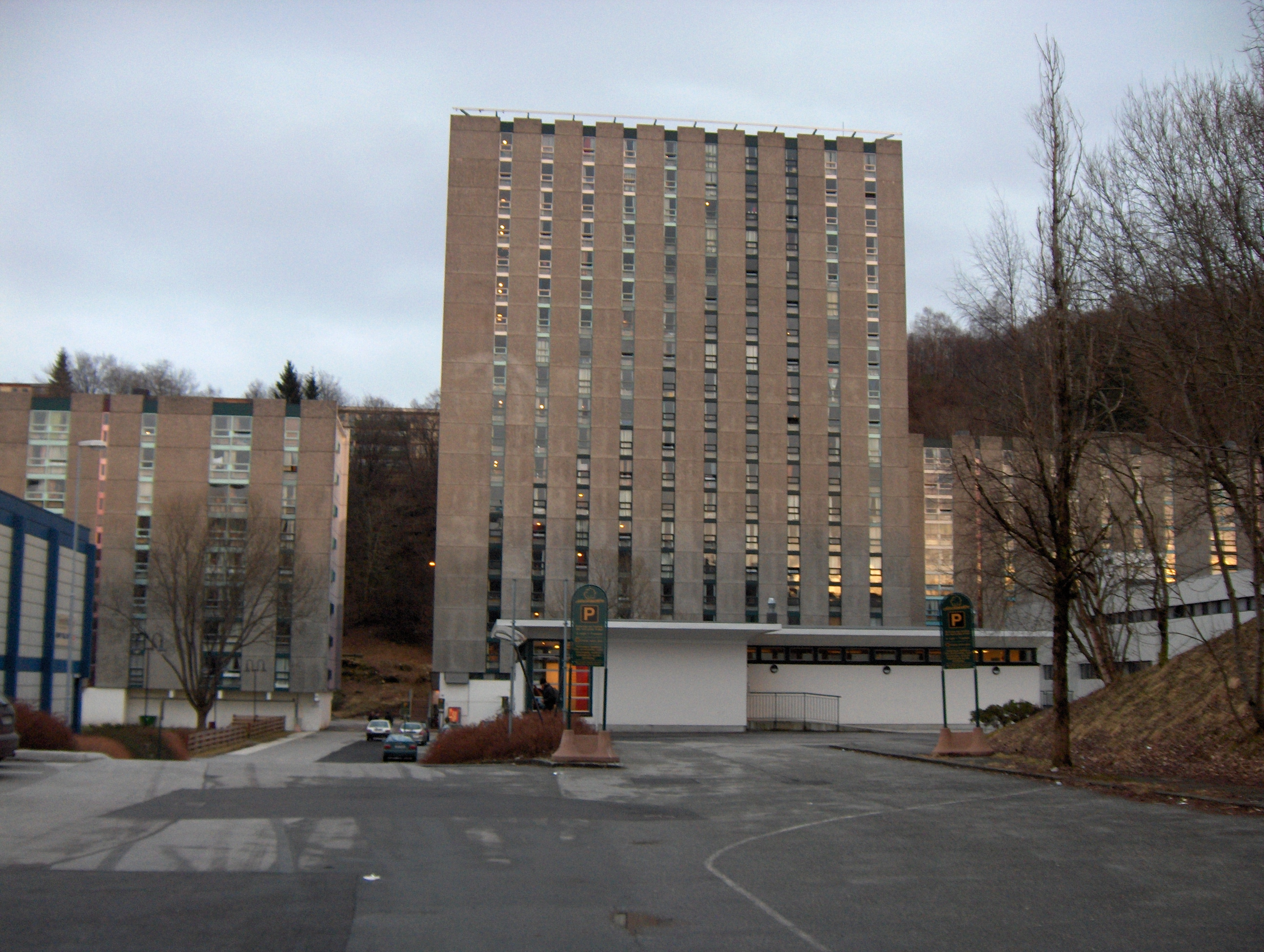 Blocks b c d Fantoft Hostel